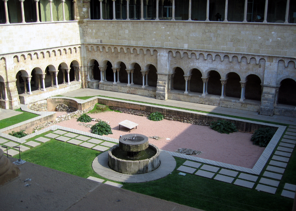 Paleo-christian basilica in the cloister of the monastery “Monestir de Sant Cugat” in Sant Cugat del Vallès (Catalonia).